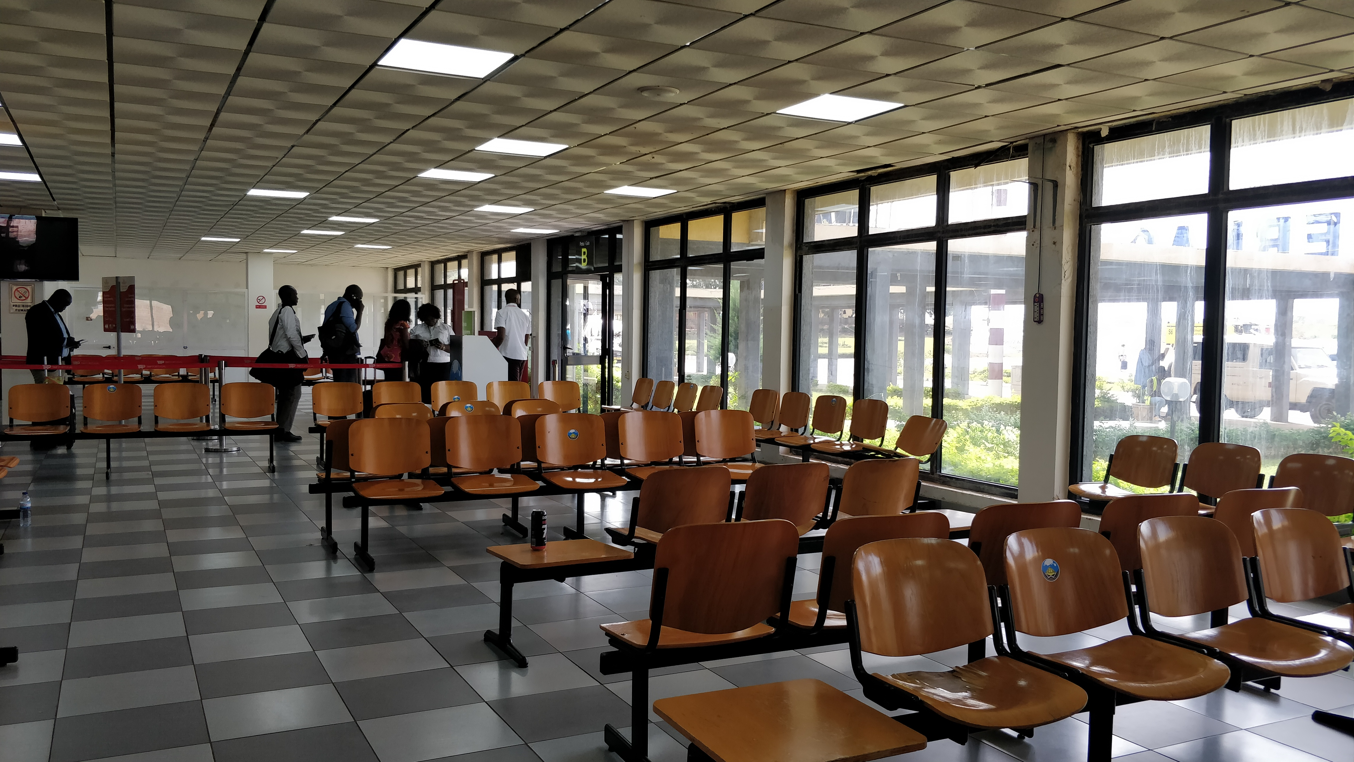 Departure gates at Bissau airport, Bissau, Guinea-Bissau